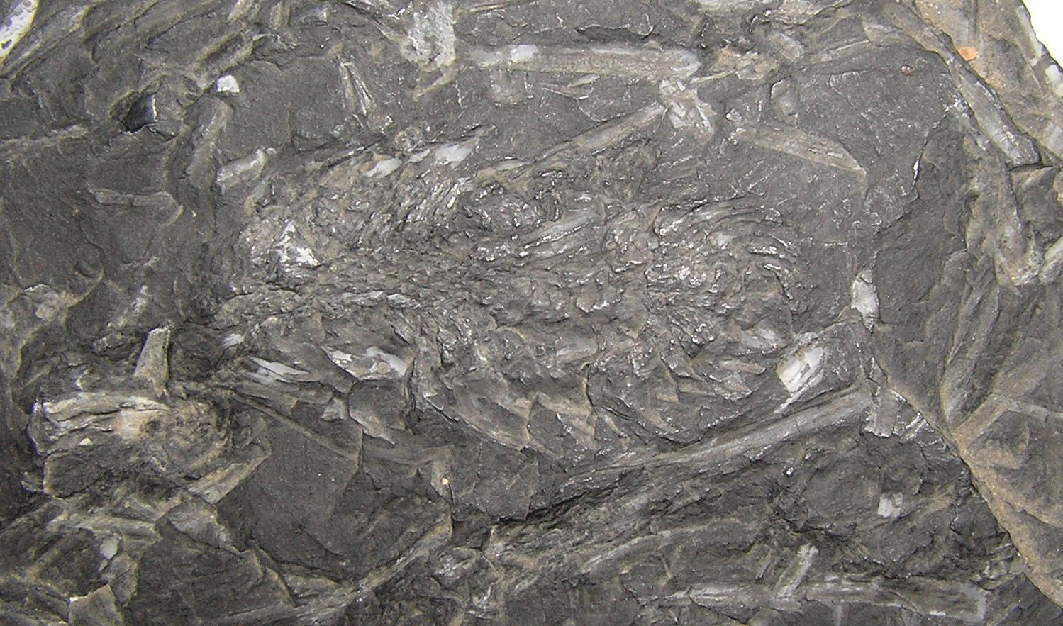 Fossil of Lepidostrobus variabilis from Pennsylvanian Carbon Co. Very rare scale tree cone; only a few hundred specimens in existence. Photo by Yannick Trottier, 2005.